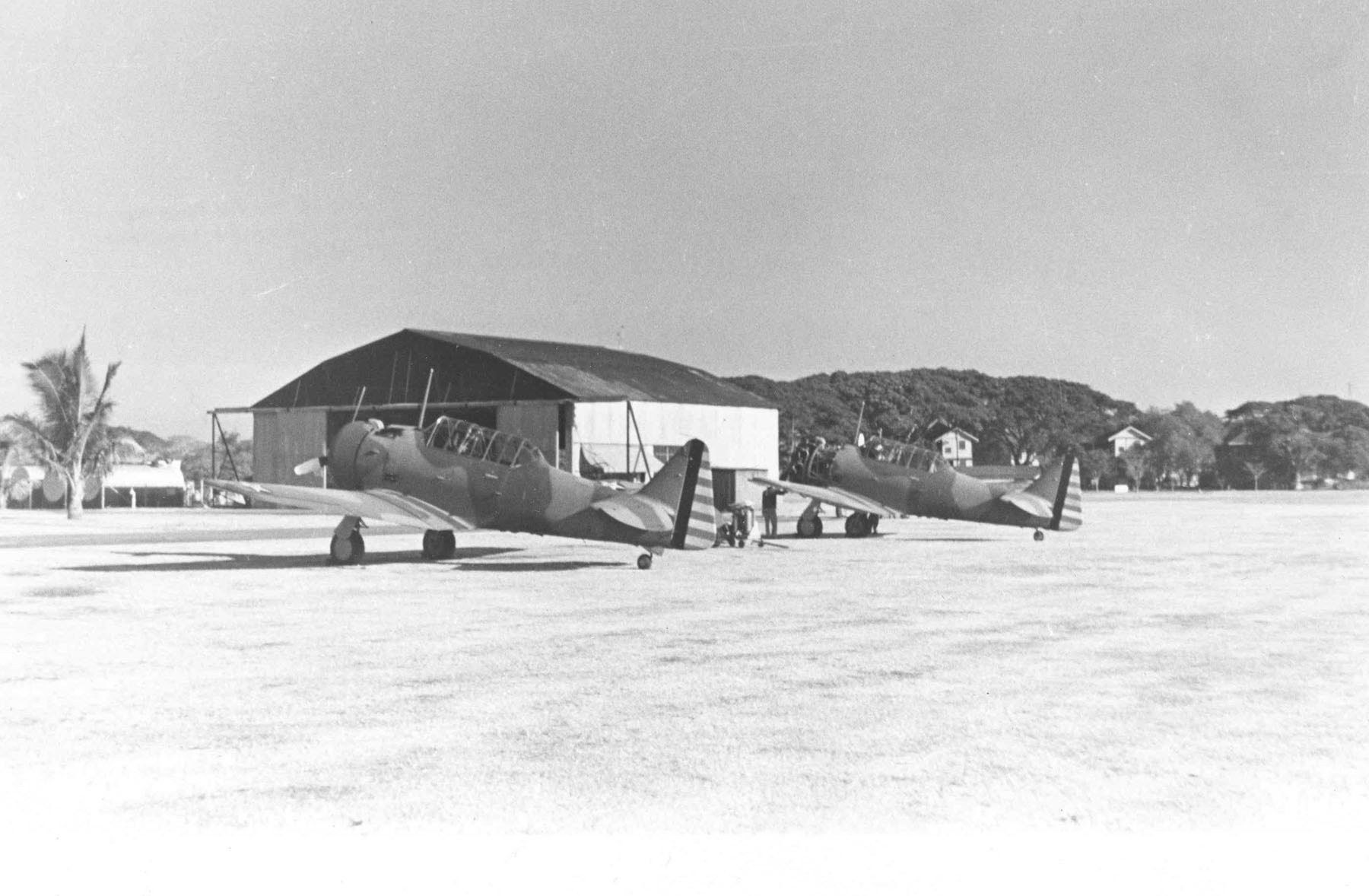 Two North American A-27s of the 17th Pursuit Squadron at Nichols Field, Philippines, in 1941. USAF description: "The United States impressed 10 North American NA-69 attack aircraft ordered by Thailand when it became apparent the aircraft would fall into Japanese hands in the early 1940s. The United States was not yet at war with Japan at this point. The NA-69 was basically an attack version of the AT-6 trainer aircraft intended for export. The aircraft were re-designated A-27s and given 1941 serial numbers. The A-27s were assigned to the U.S. Army Air Corps' 17th Pursuit Squadron at Nichols Field in the Philippines. When the Japanese attacked the Philippine Islands in the first days of the Pacific War, all A-27s were destroyed."